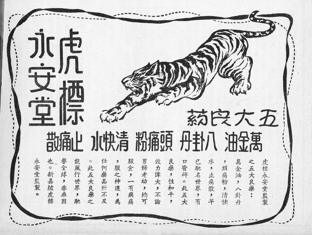 An advertisement for Tiger Balm. 中文（新加坡）: 虎标万金油 广告 1951 星洲周刊